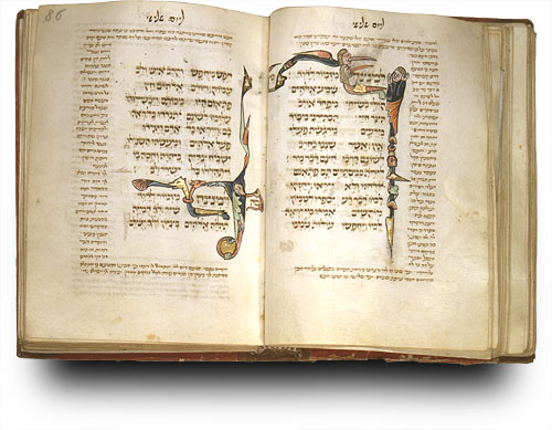 Psalm 64 (fol 85b) - A human figure raises both hands to shield himself from two hybrids with human heads that dart at him from the left, with monstrously long and pointed red tongues. It is a close visual translation of vv. 2-4 (1-3), 'Hear my voice, ... preserve my life, ... hide me from ... the scheming of evildoers, who whet their tongues like swords, who aim bitter words like arrows'. Psalm 65 (fol 86a) - The figure with an arm outstretched and a dog's face in the opening of his hood is the 'choirmaster'. 'Praise waiteth for Thee, O God, in Zion; and unto Thee the vow is performed.'